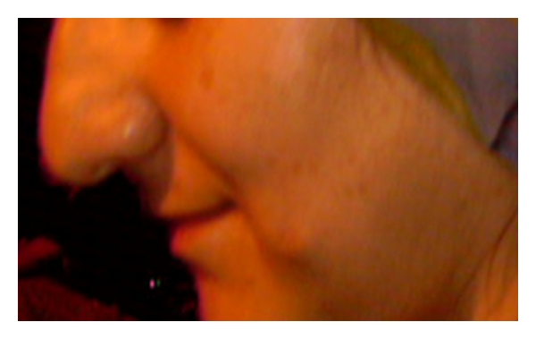 Demonstrates a slowly growing nodular lesion at the left nasolabial region that had been growing for three years.